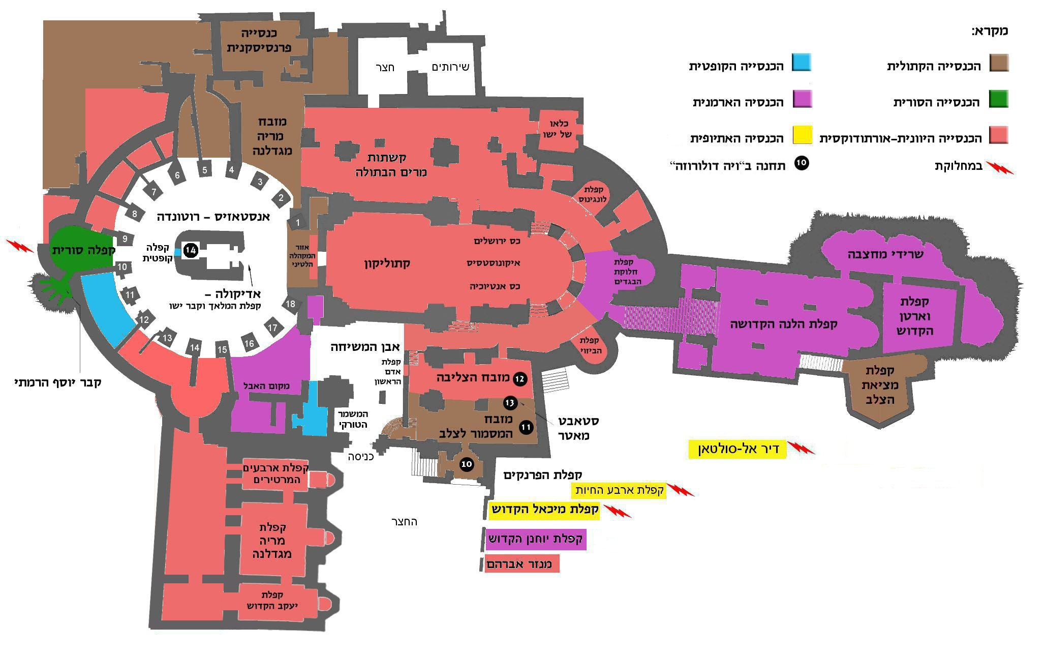 plan of the Holy Sepulchre.